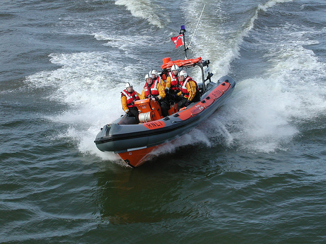 Aberystwyth Lifeboat (Atlantic 75, B-704, Enid Mary) coming into the harbour. I'm sat on the port sponson